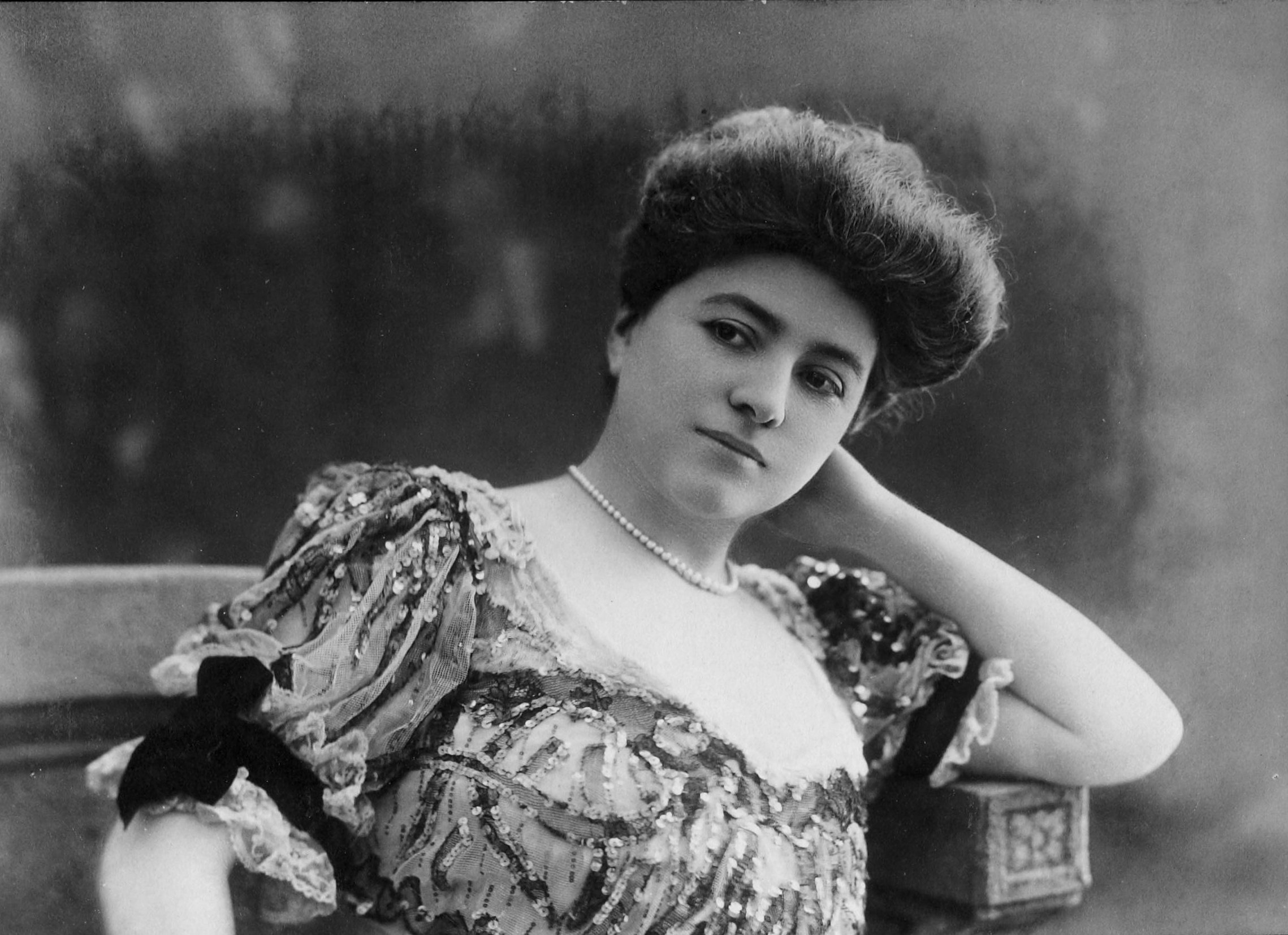 Lucy Berthet.